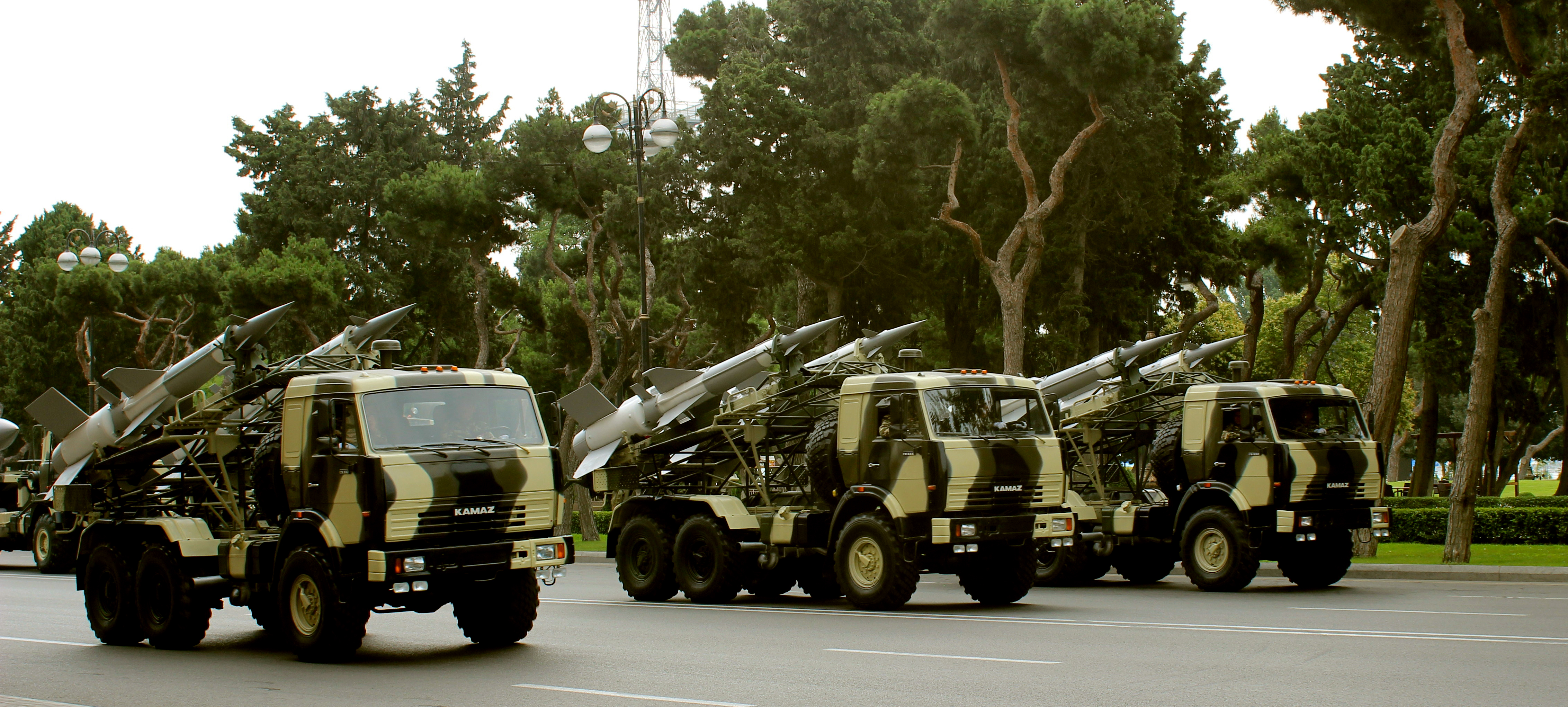 Military parade in Baku 2013